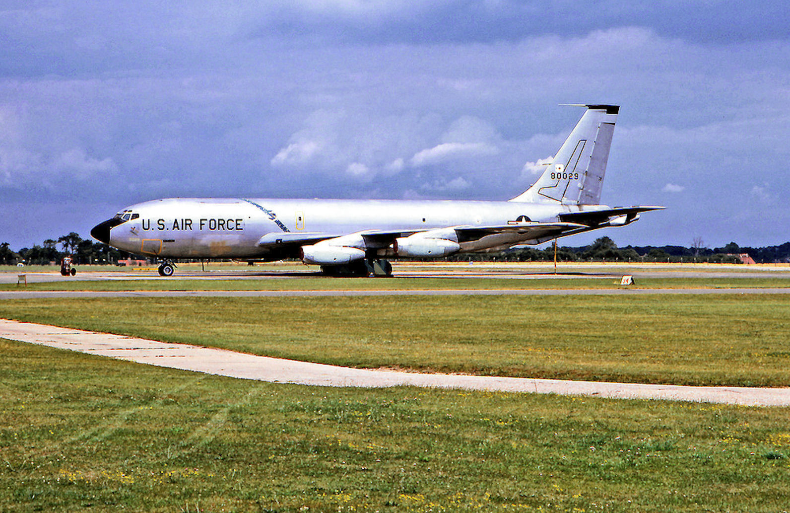 911 Air Refueling Squadron Boeing KC-135A-BN Stratotanker 58-0029